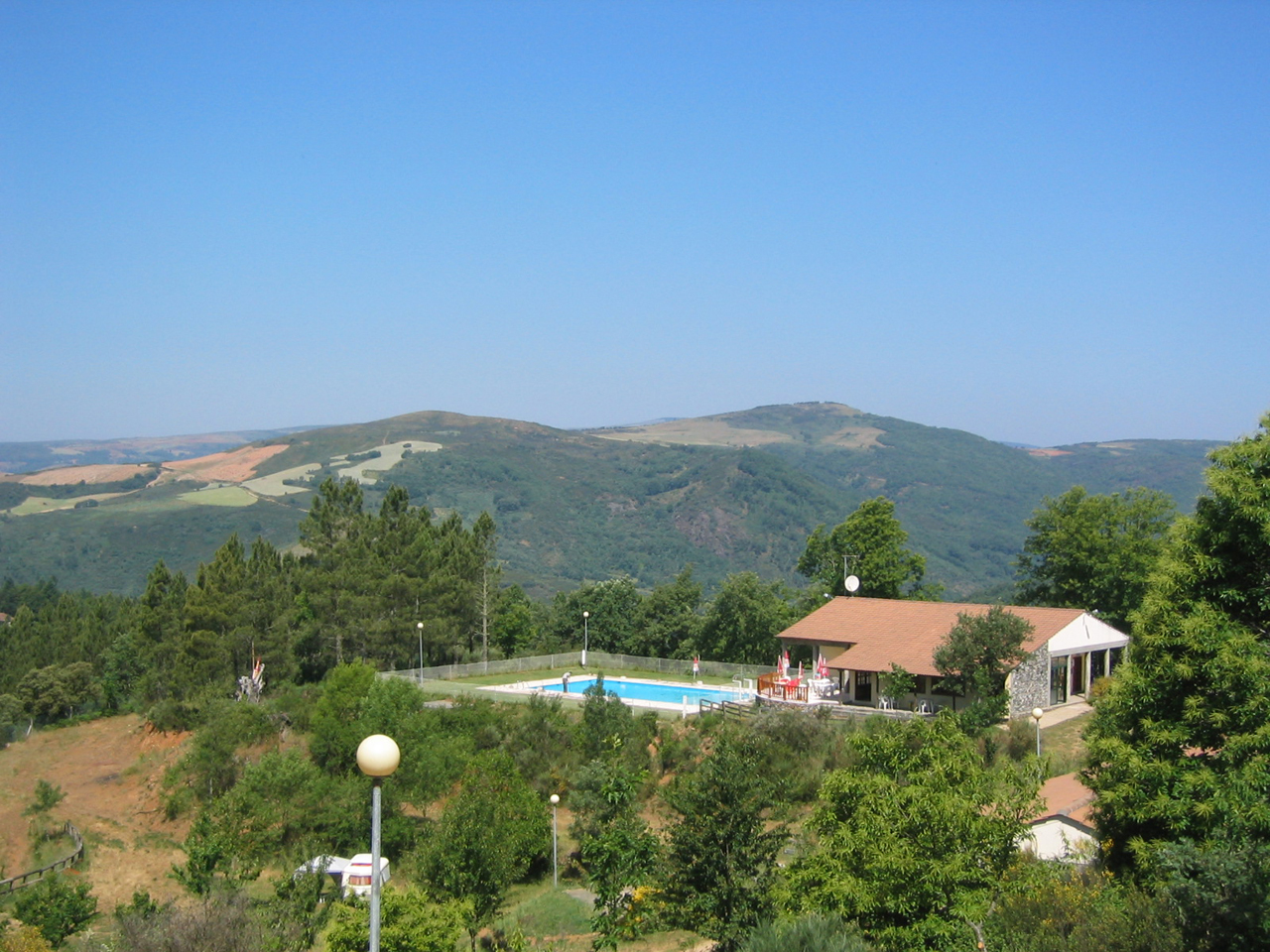 View of the bar and swimming pool from the top of the camping